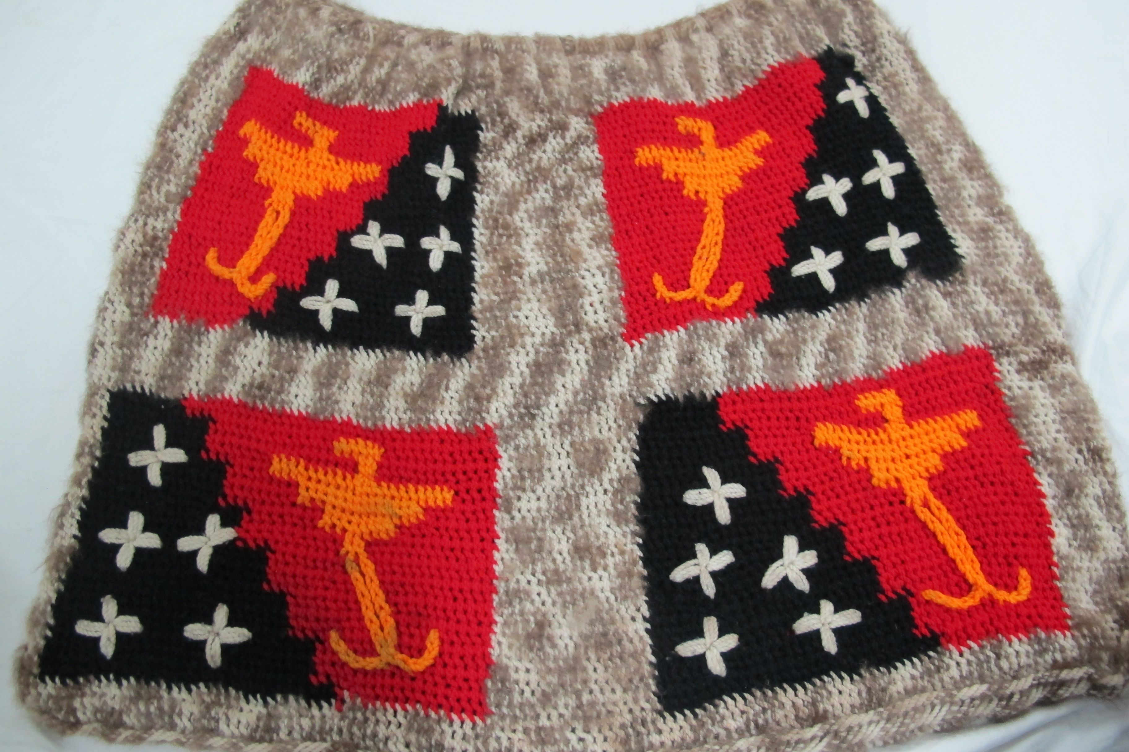 Bilum from Papua New Guinea, part of Weslake collection of the South Sea Islands Museum in Cooranbong, New South Wales